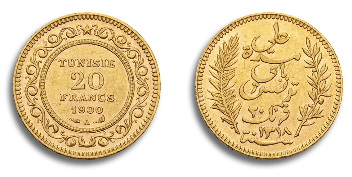 Ali III ibn al-Husayn, 20 Francs Gold, 1900, Tunisia